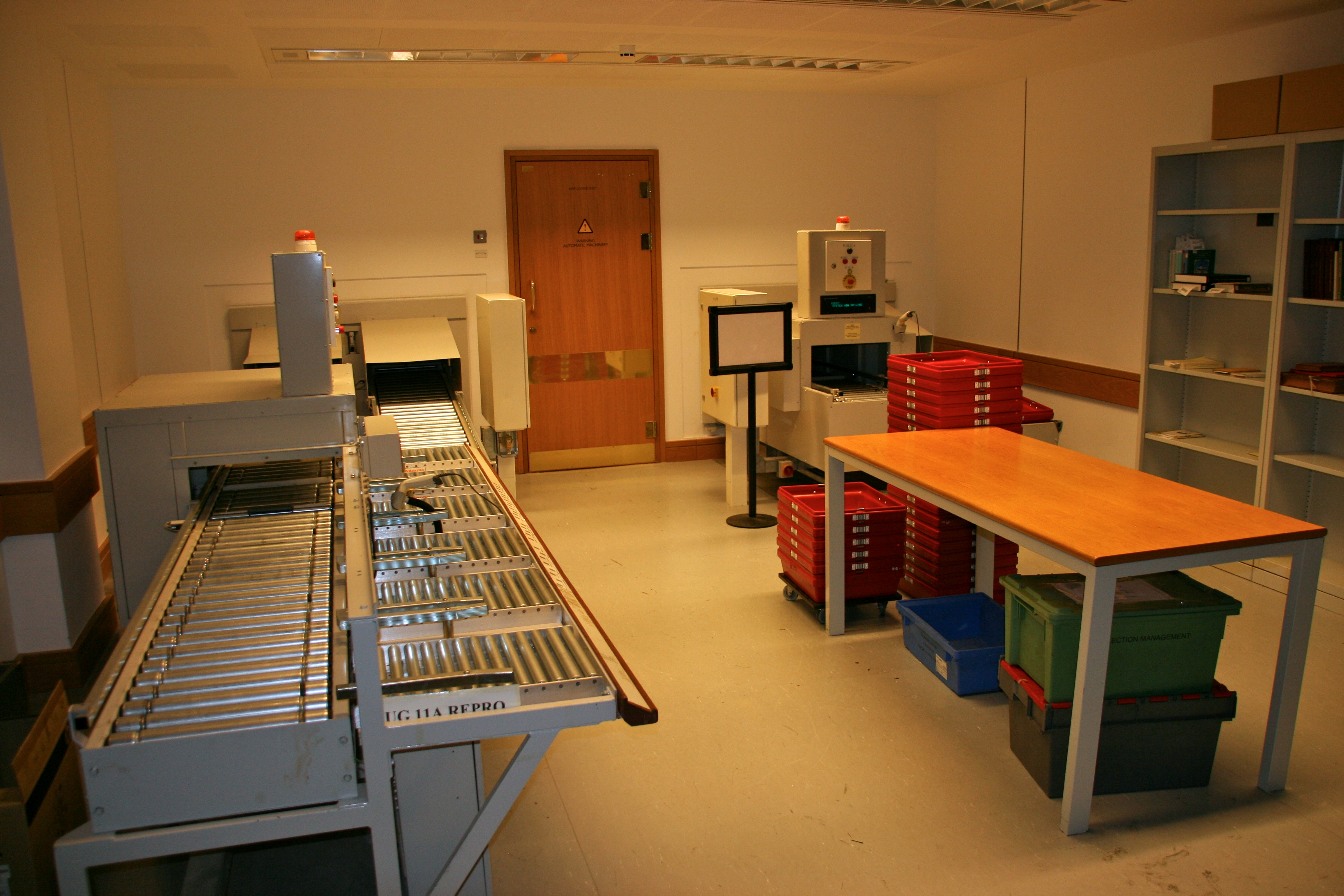 Mechanical book handling system (MBHS) at the British Library. Taken during the wmuk:Editathon, British Library.